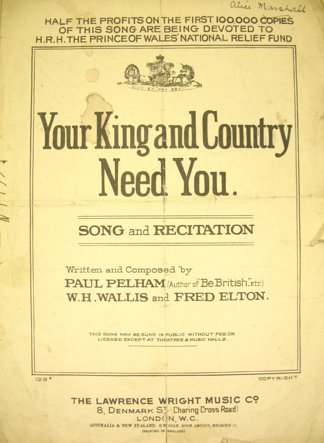 The front cover of the sheet music for the song: "Your King and Country Need You"